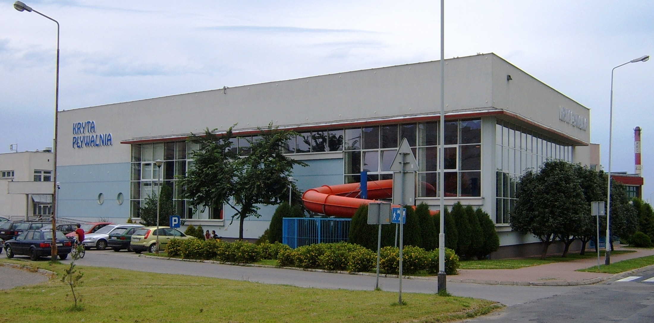 Swimming pool, baths in Zamość, Poland